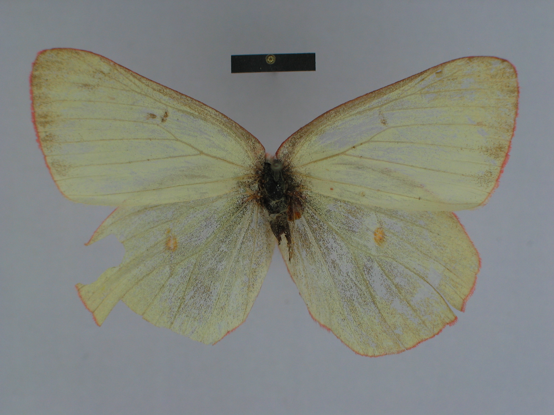 Specimen of the species Colias gigantea pelidneides from the collection of the Zoological Museum of the Zoological Institute of the Russian Academy of Sciences; ♀ dorsal side; scalebar=1 cm